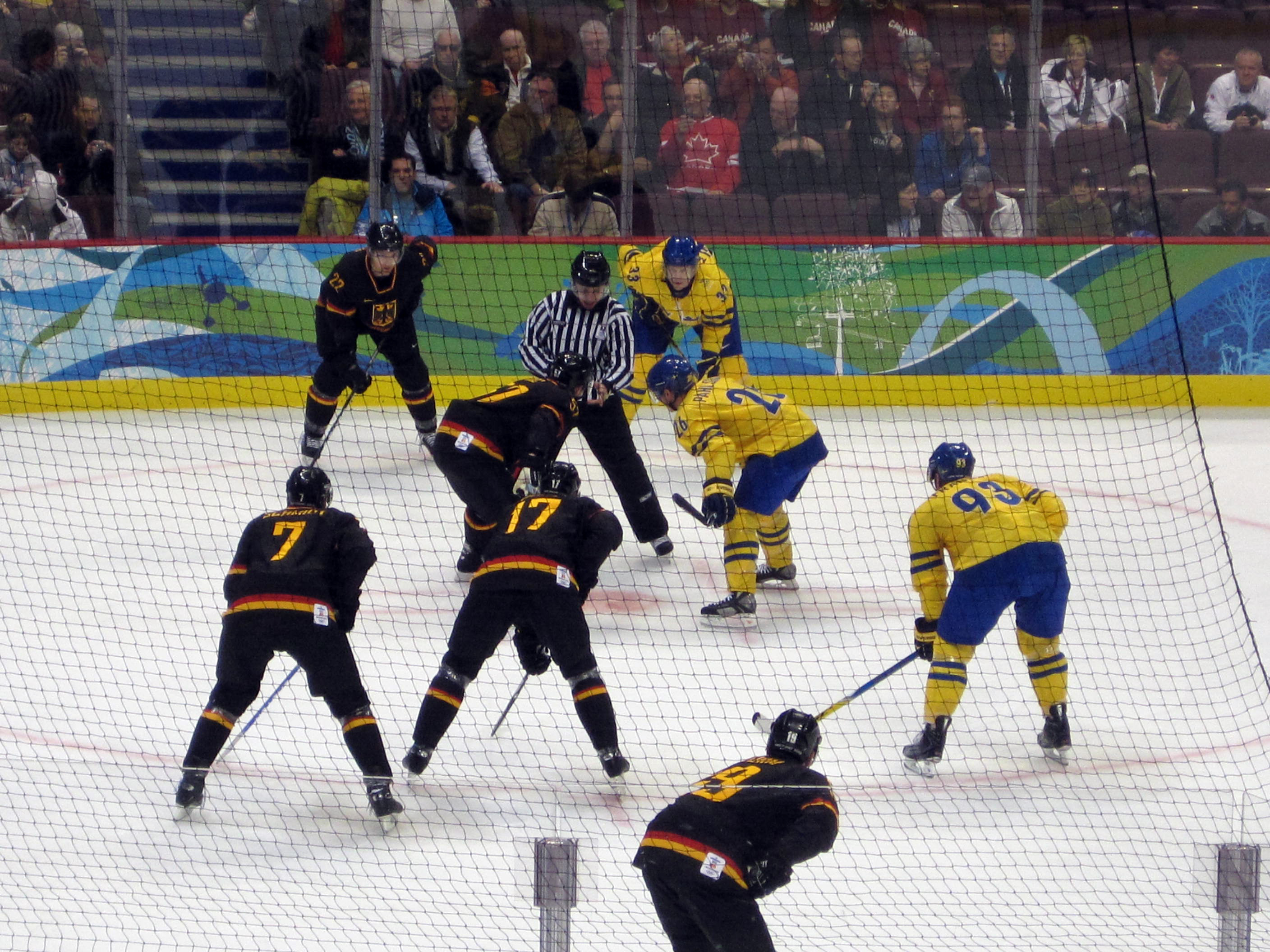 Men's Hockey Sweden v Germany at the 2010 Winter Olympics